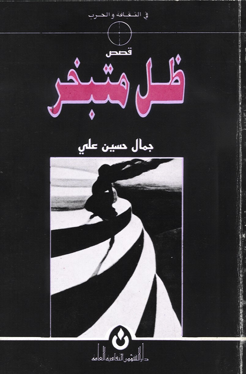 غلاف ظل متبخر